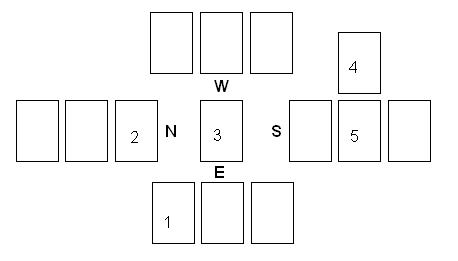 A picture presenting tiles in the Little way of foretelling using Mahjong.